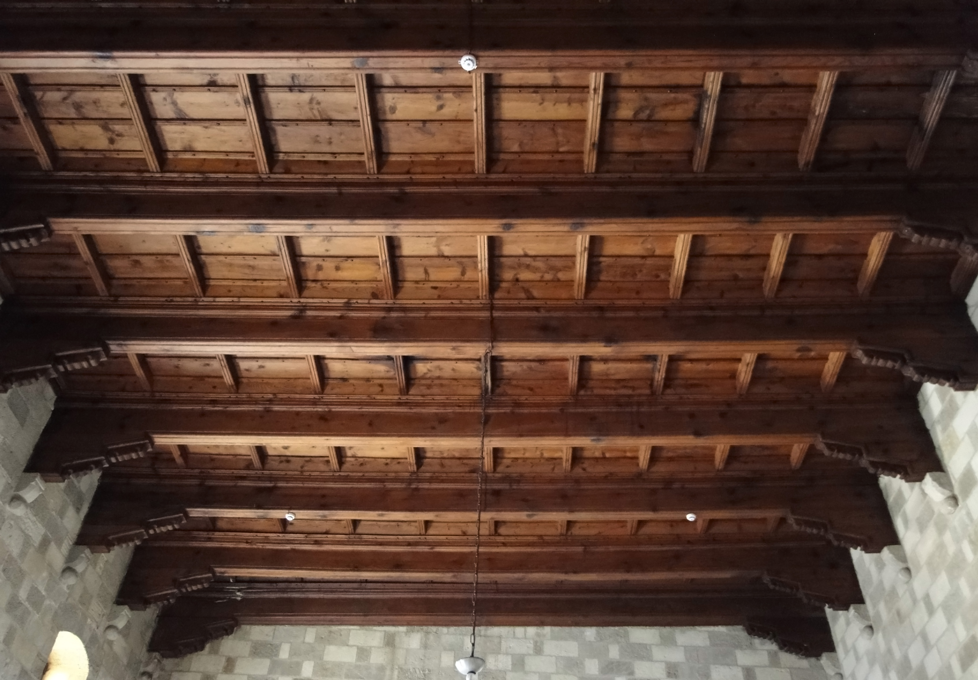 The wooden ceiling of the Chamber of Colonnades in the Palace of the Grand Masters, Rhodes, Greece